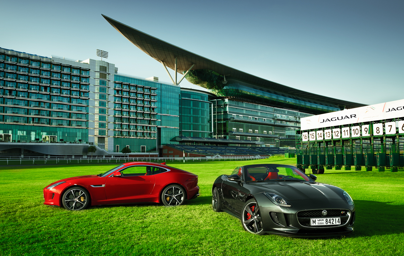 Luxury automotive manufacturer Jaguar has announced it will once again play proud host to the hotly anticipated Jaguar Style Stakes that will be the must-visit event at this year’s Dubai World Cup. The Jaguar Style Stakes will take place at the world’s richest horse race, held at the Meydan Racecourse on 29 March 2014. Read more here